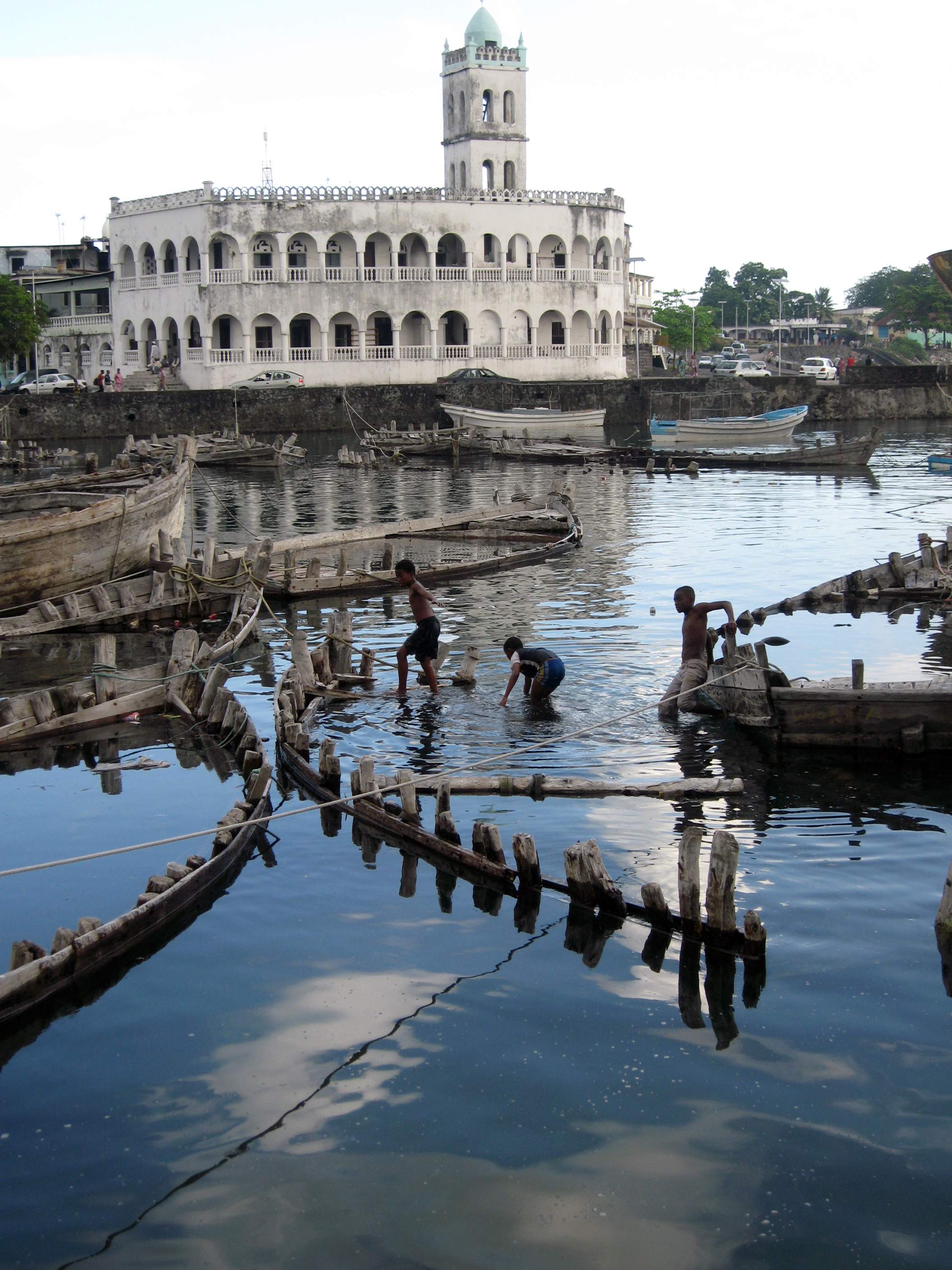 Harbour in front of the Old Friday Mosque, Moroni (Ancienne Mosquee du Vendredi) (kanzu, kofia, chiromani)